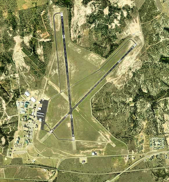 USGS digital orthophoto of Avenger Field, an airport in Sweetwater, Texas, United States.